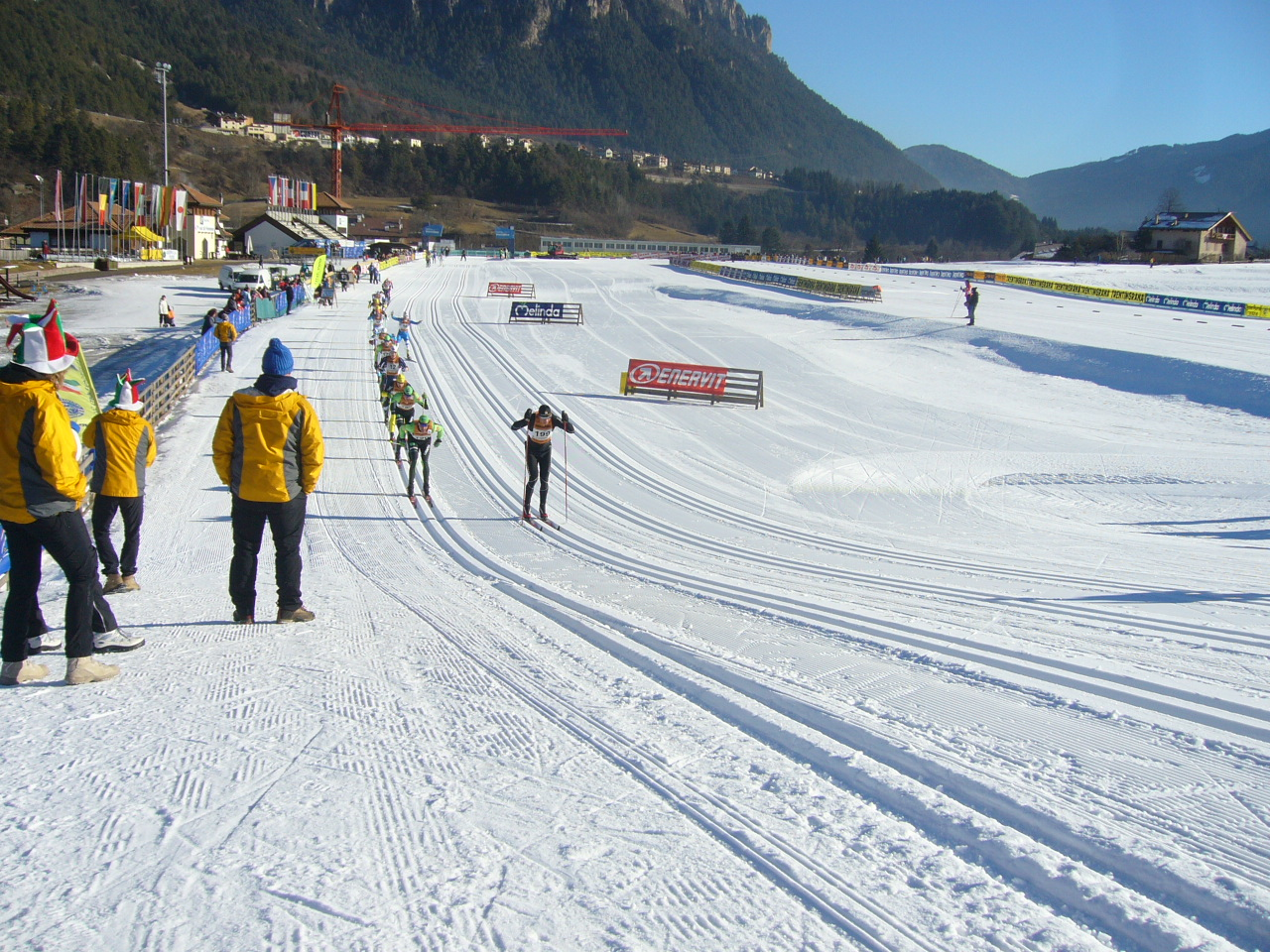 Marcialonga 2011 at Lago di Tesero Cross-Country Ski Stadium